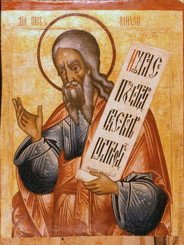 Micah the prophet, Russian icon from first quarter of 18th cen.